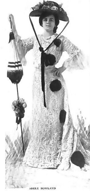 Musical Comedy Actress Adele Rowland ca. 1904